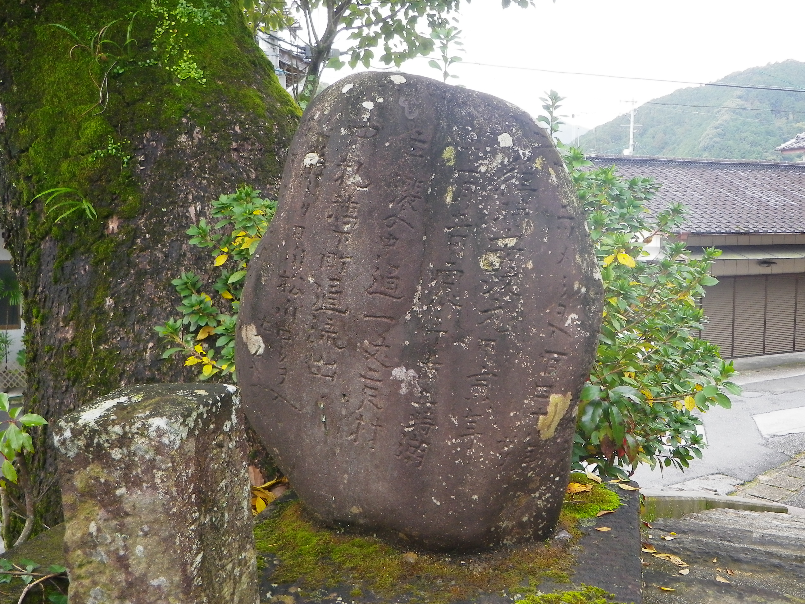 Kure Kumano jinja shrine monument